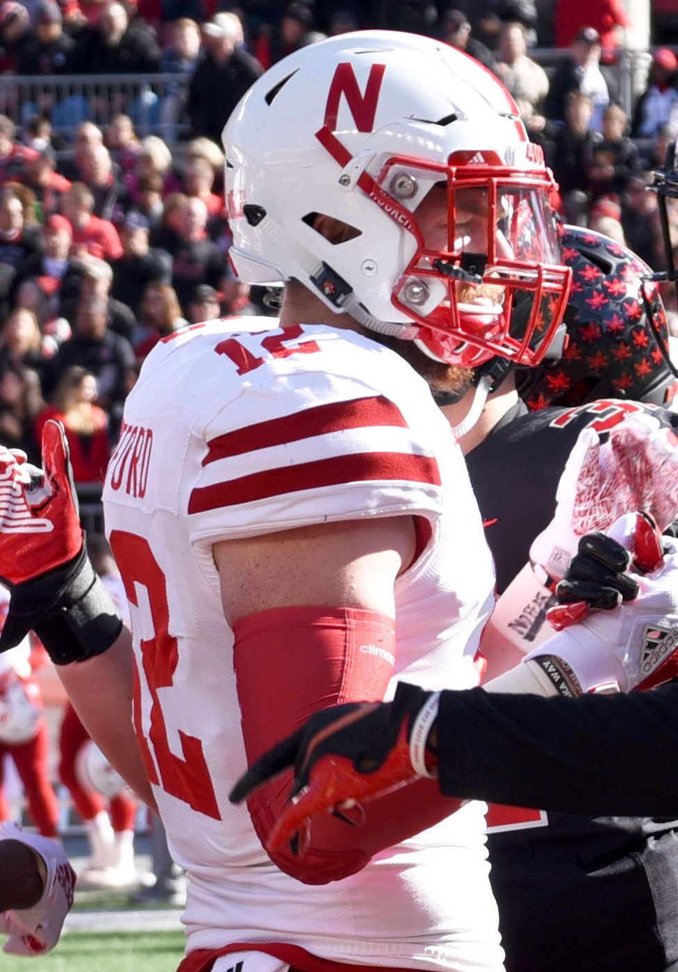 An Ohio State and Nebraska football player shake hands after the coin toss at the Ohio State football game on November 3, 2018, in Columbus, Ohio. This game was dedicated to honoring military men and women for Veterans Day. (U.S. Air Force National Guard photo by Senior Airman Christi Richter).